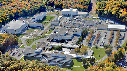 aerial view of the Princeton Plasma Physics Laboratory